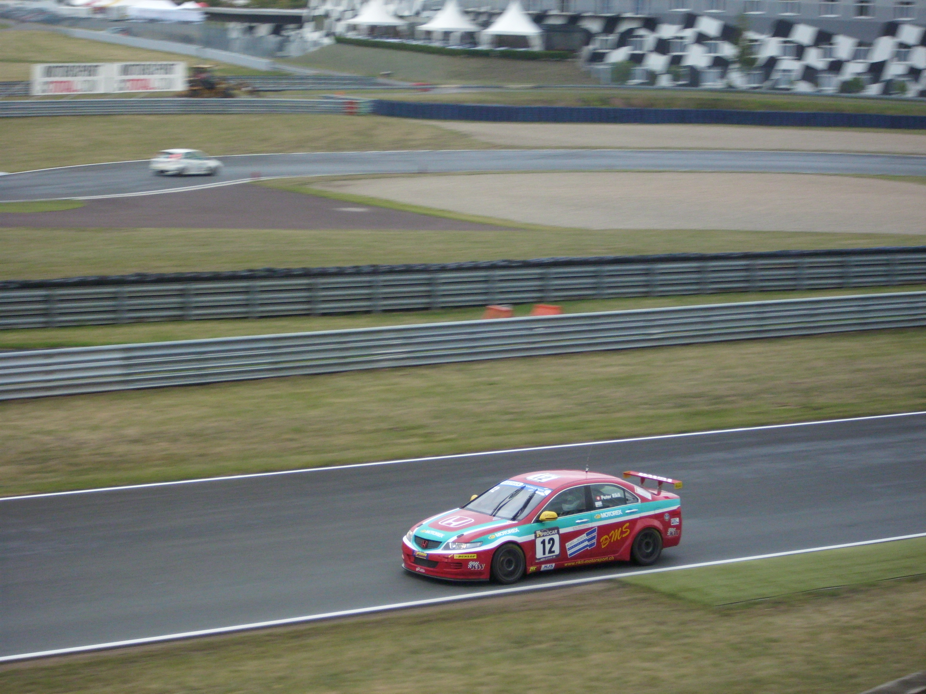 Peter Rikli in his Honda Accord at the 2009 Oschersleben Race of the Procar Series.